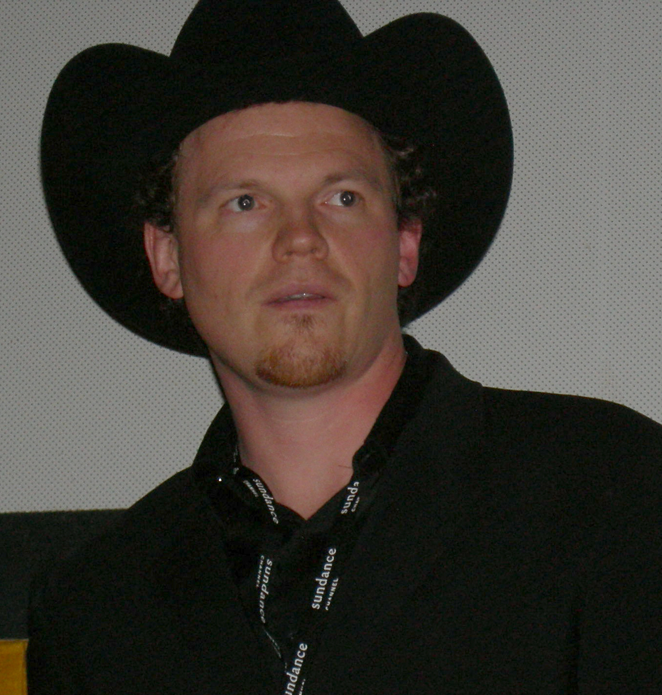 Screenwriter Grant Cogswell at the premiere of the film Cthulhu, at the Neptune Theater during the 2007 Seattle International Film Festival.